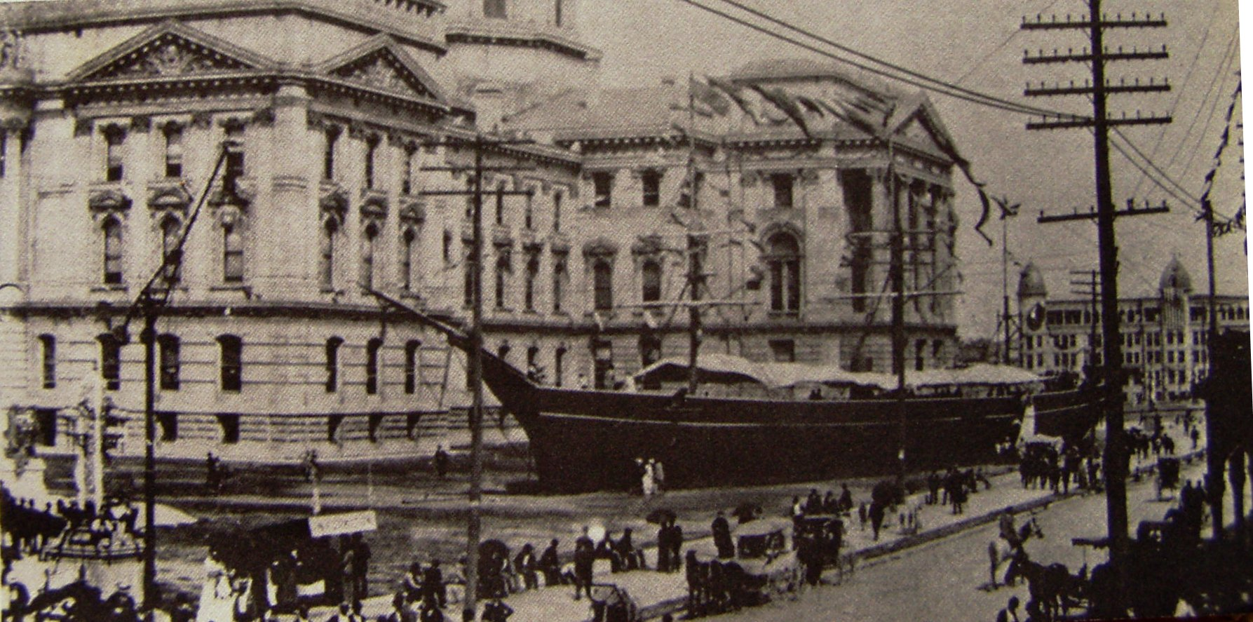 The USS Kearsage on display on the Indiana statehouse grounds at the 1893 GAR national convention.